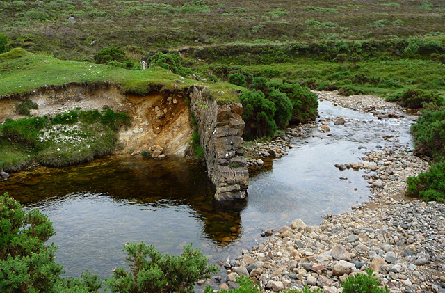 Dyke exposed by the Allt Beinn Deirge. A good example of a volcanic intrusion exposed by the erosion of the softer rocks around it. 3 km from Broadford/An t-Àth Leathann, Highland, Great Britain